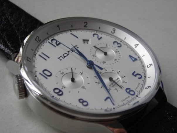 Poljot Journey